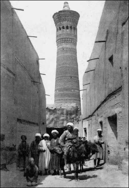 People near Kalyan minaret